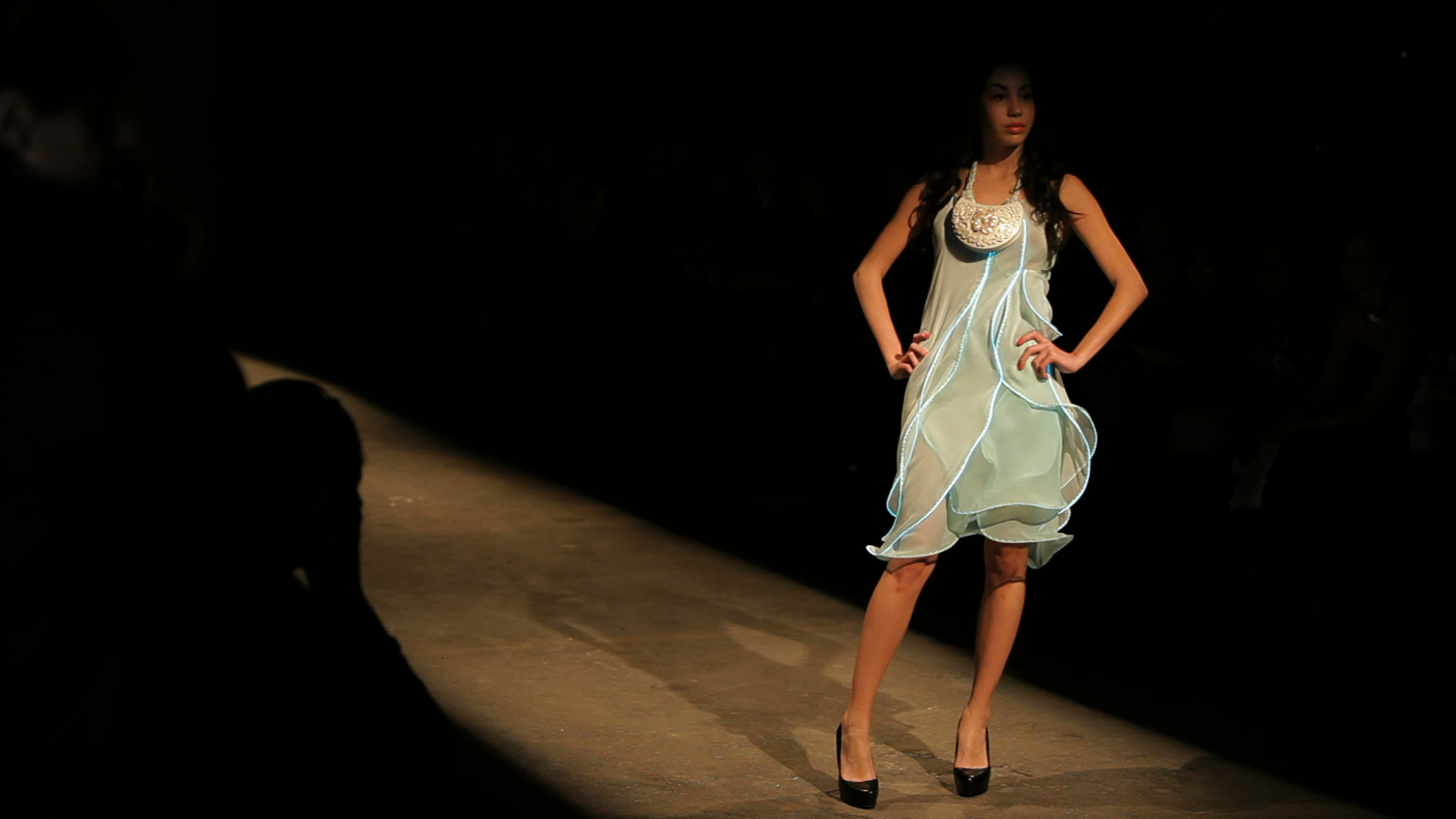 One of Diana Eng's designs at the Fairytale Fashion show with EL wire sewn into the dress.